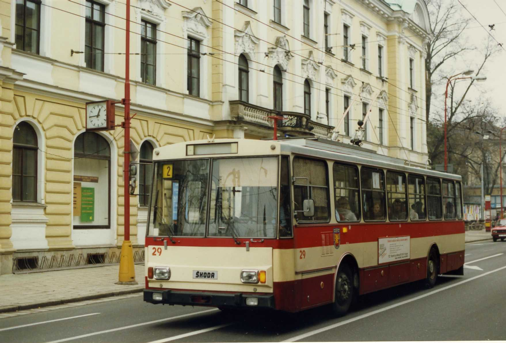 Škoda 14Tr trolleybus in Hradec Králové, Czech Republic, 1992